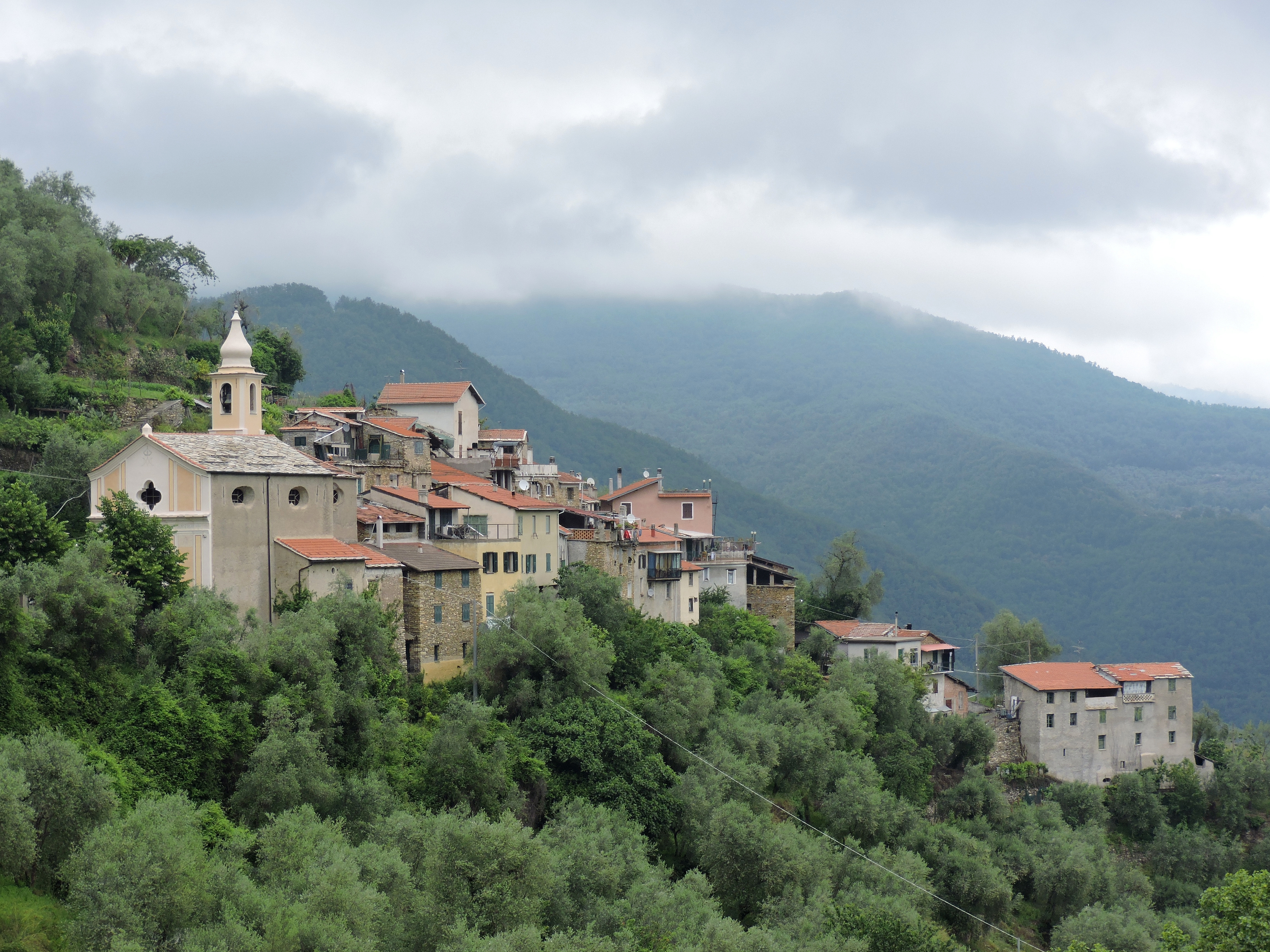 Calderara (Pieve di Teco, IM, Italy)